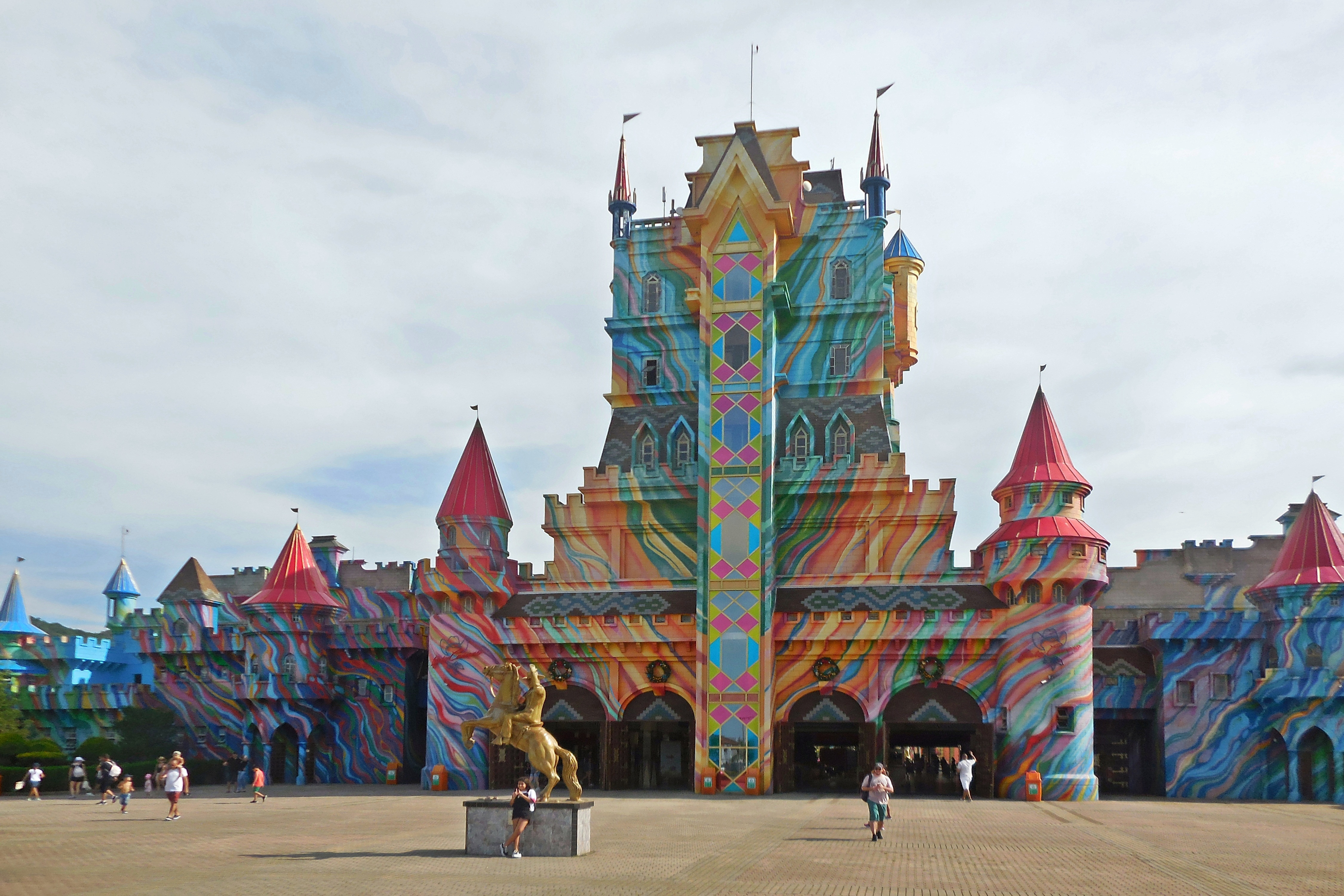 The Castelo das Nações (Castle of Nations) in the Beto Carrero World, in Penha, Santa Catarina, Brazil.